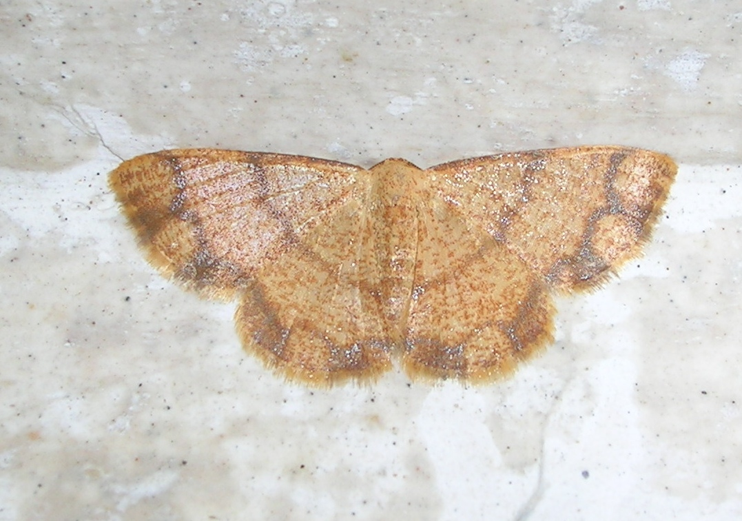 Heterostegane sp. (Geometridae, Ennominae), Mudigere, Karnataka, India (Determination courtesy: Roger Kendrick, )